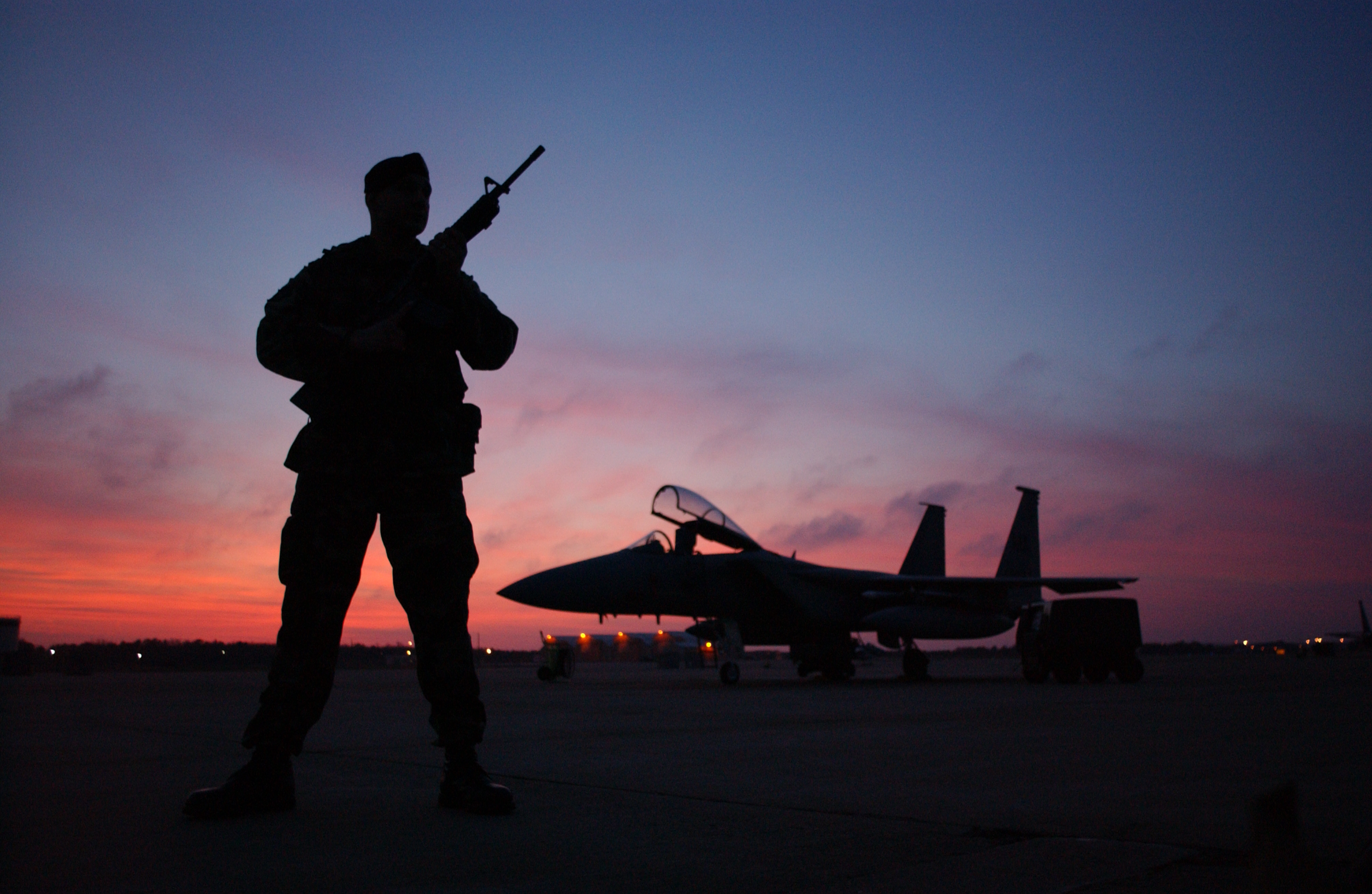 Staff Sgt. Nassim Rizvi guards an F-15 Eagle on the flightline at Otis Air National Guard Base here during a warm winter sunset Dec. 23, 2004. Sergeant Rizvi is assigned to the 102nd Fighter Wing Security Forces.